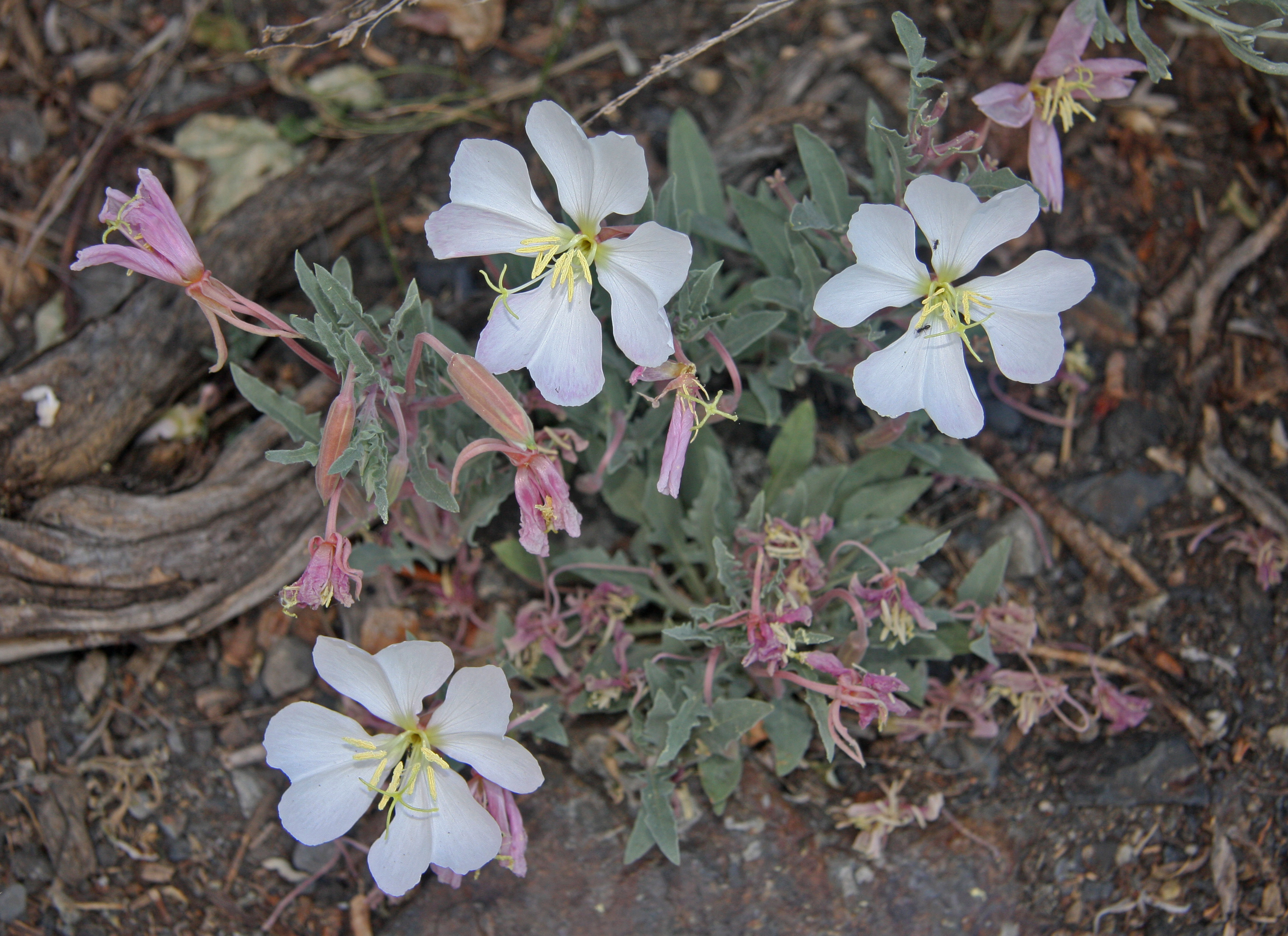 Rock-rose evening primrose (Oenothera cespitosa subsp. marginata) flowers, a very small, low evening primrose often seen on road edges. Also called desert evening primrose, or large white evening primrose. Southeast side of Convict Lake at 7600ft, Eastern Sierra, Mono County, California.